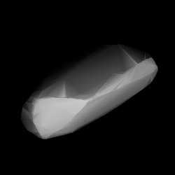 3D convex shape model of 6522 Aci, computed using light curve inversion techniques. J. Hanuš, J. Ďurech, M. Brož, B. D. Warner (June 2011). "A study of asteroid pole-latitude distribution based on an extended set of shape models derived by the lightcurve inversion method". Astronomy and Astrophysics 530: A134. ISSN 0004-6361. arXiv